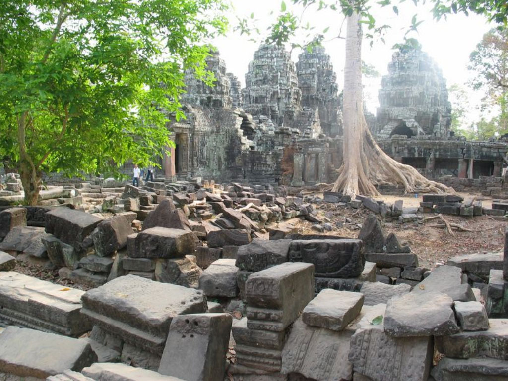 Banteay Kdei is a temple at Angkor, Cambodia. It is located southeast of Ta Prohm and east of Angkor Thom. Built in the late 12th to early 13th centuriesCE during the reign of Jayavarman VII, it is a Buddhist temple in the Bayon style, similar in plan to Ta Prohm and Preah Khan, but less complex and smaller. Its structures are contained within two successive enclosure walls, and consist of two concentric galleries from which emerge towers, preceded to the east by a cloister. This monastic complex is currently dilapidated due to faulty construction and poor quality sandstone. Banteay Kdei has been occupied by monks at various intervals over the centuries, but the inscription stone has never been discovered so it is unknown to whom the temple is dedicated.